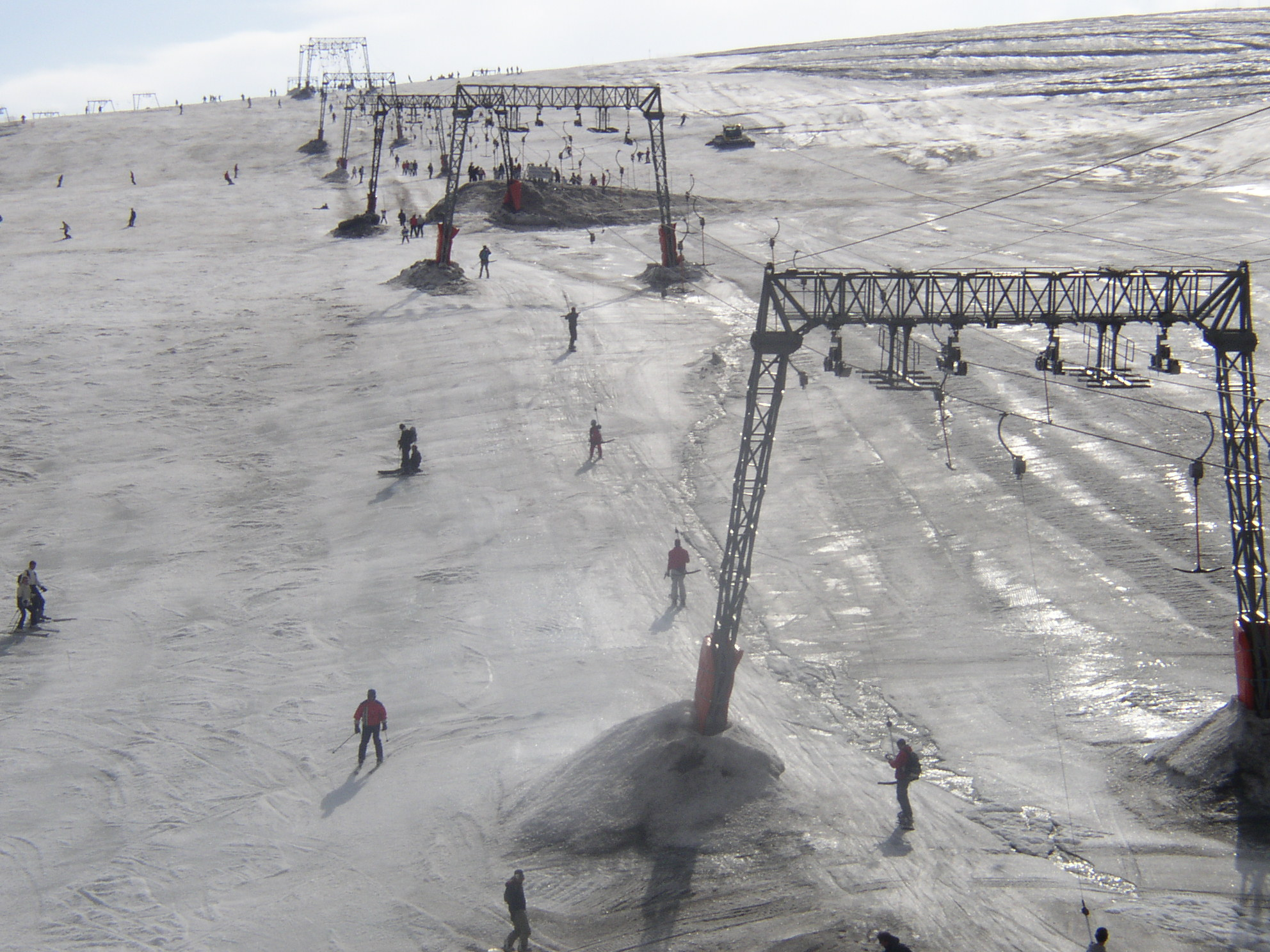 Photo of the glacier's lift system at the Les Deux Alpes ski-resort in France. Taken by me with a digital camera.